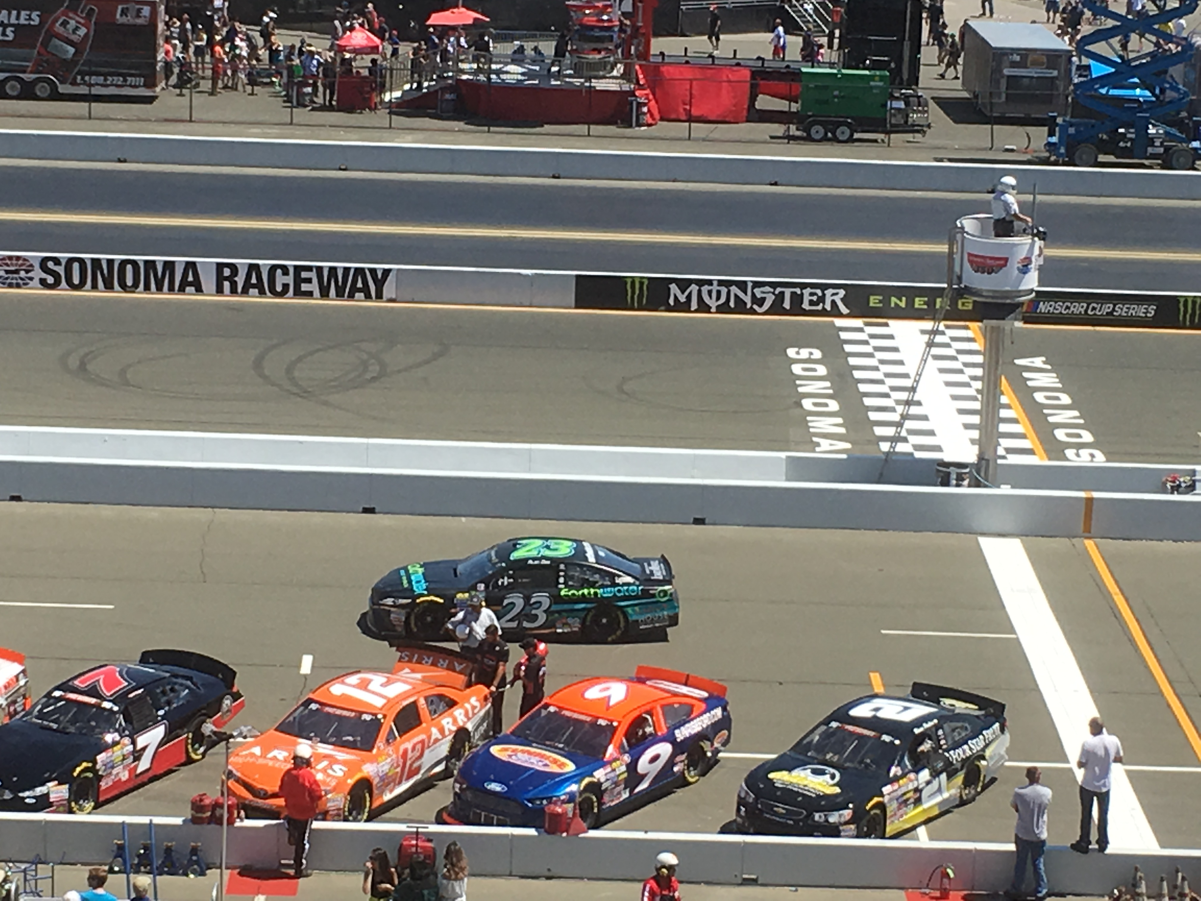 Alon Day during qualifying for the 2017 Toyota/Save Mart 350.